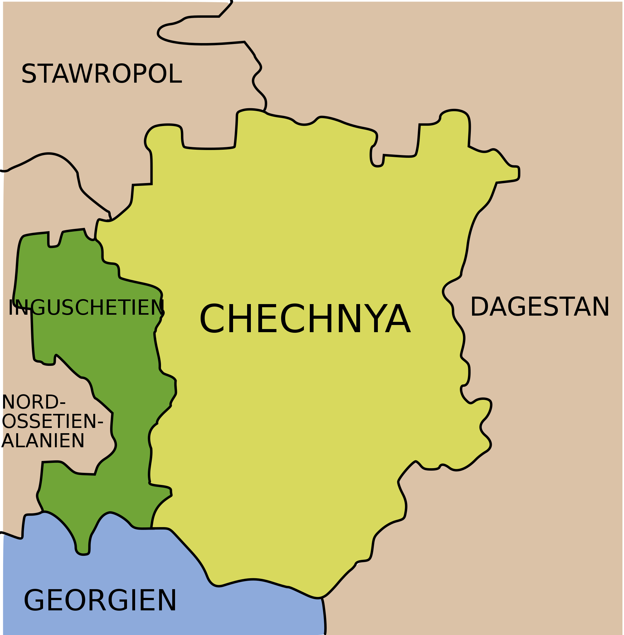 Map of Ingushetia and Chechnya in German, PNG-Version.